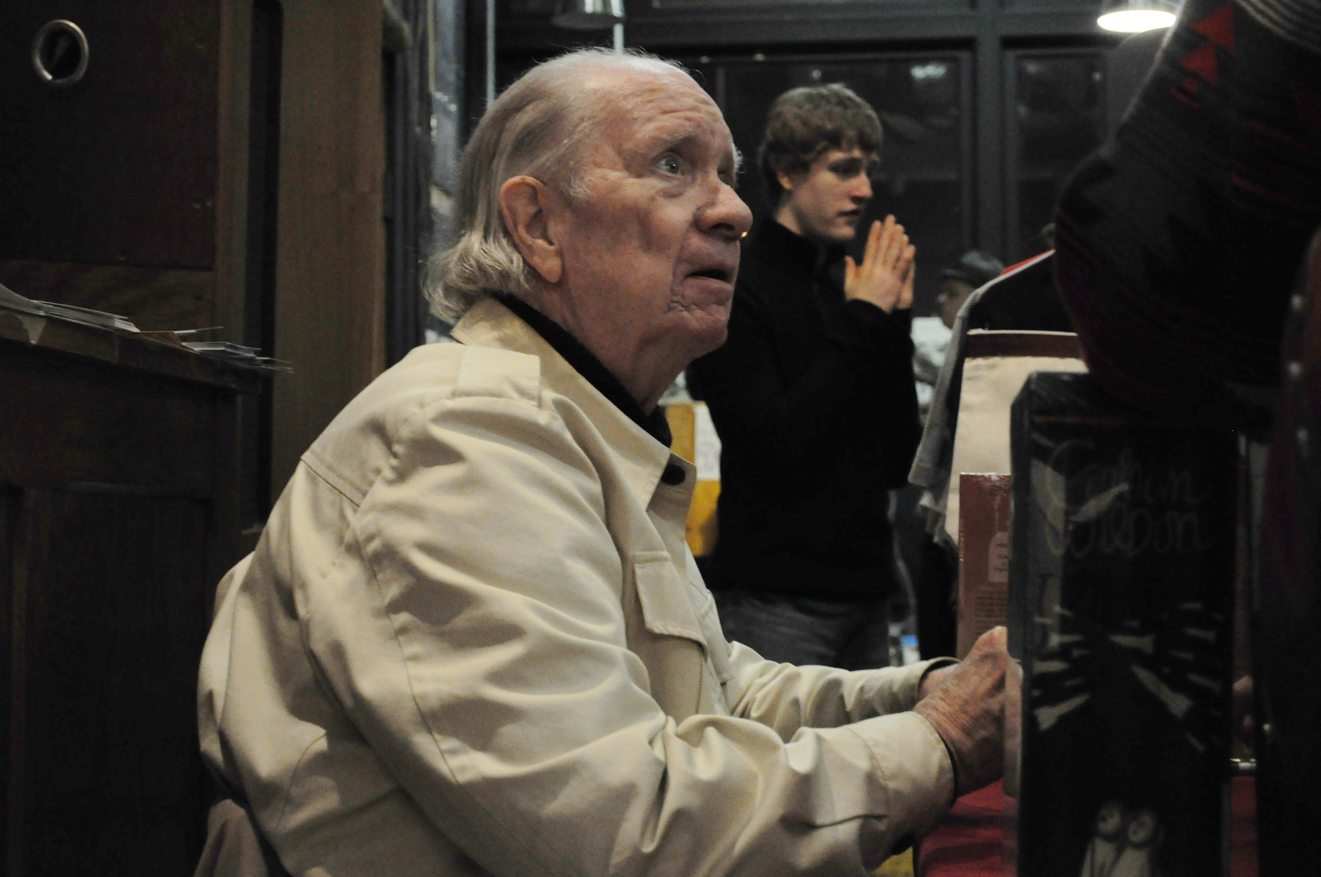 Cartoonist Gahan Wilson signing books at Fantagraphics store, Georgetown, Seattle, Washington.